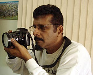 Photograph of Mr.Deepak Haldankar, a Cinematographer.